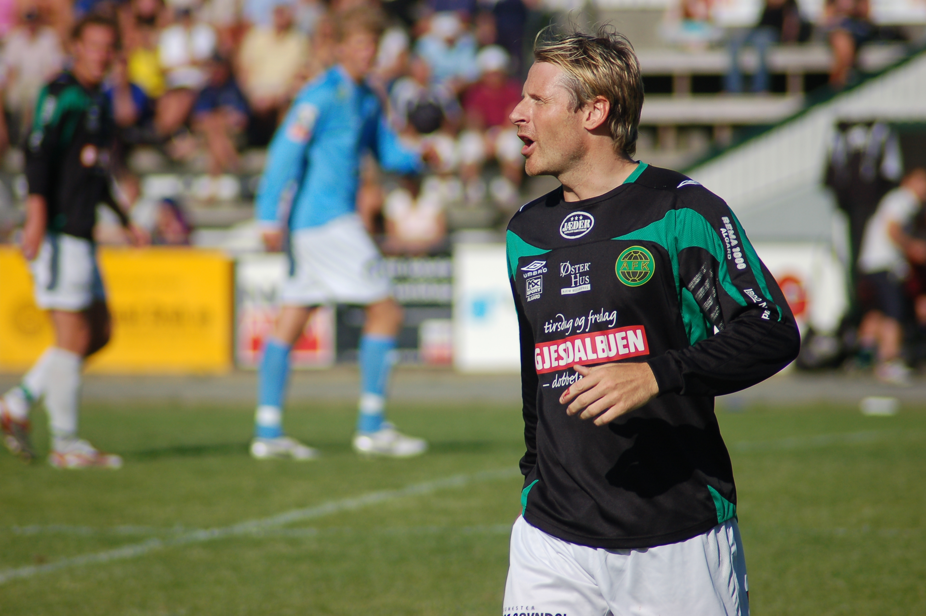 Ålgård manager and player Tommy Bergersen